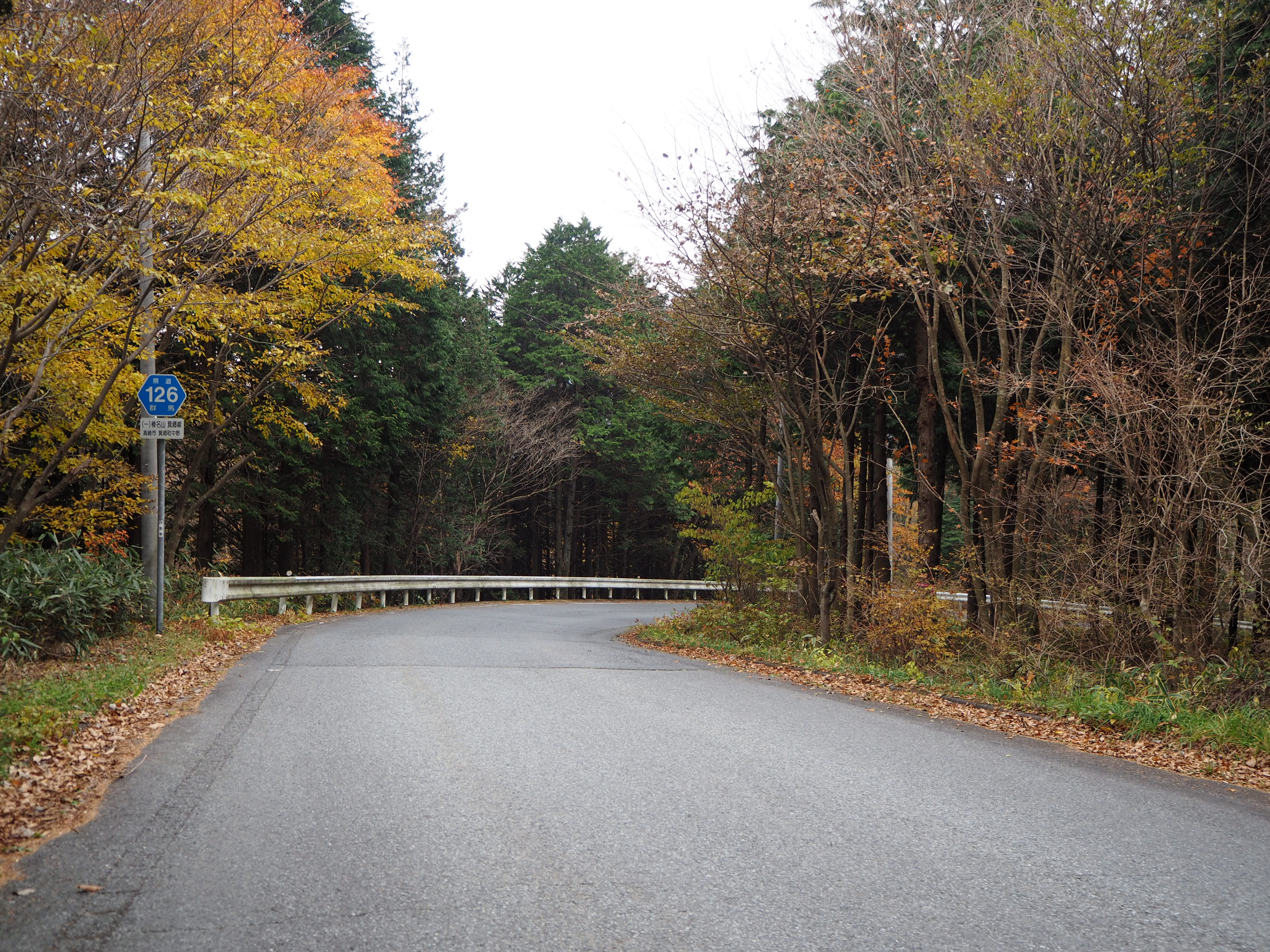 Gunma prefectural road Route 126